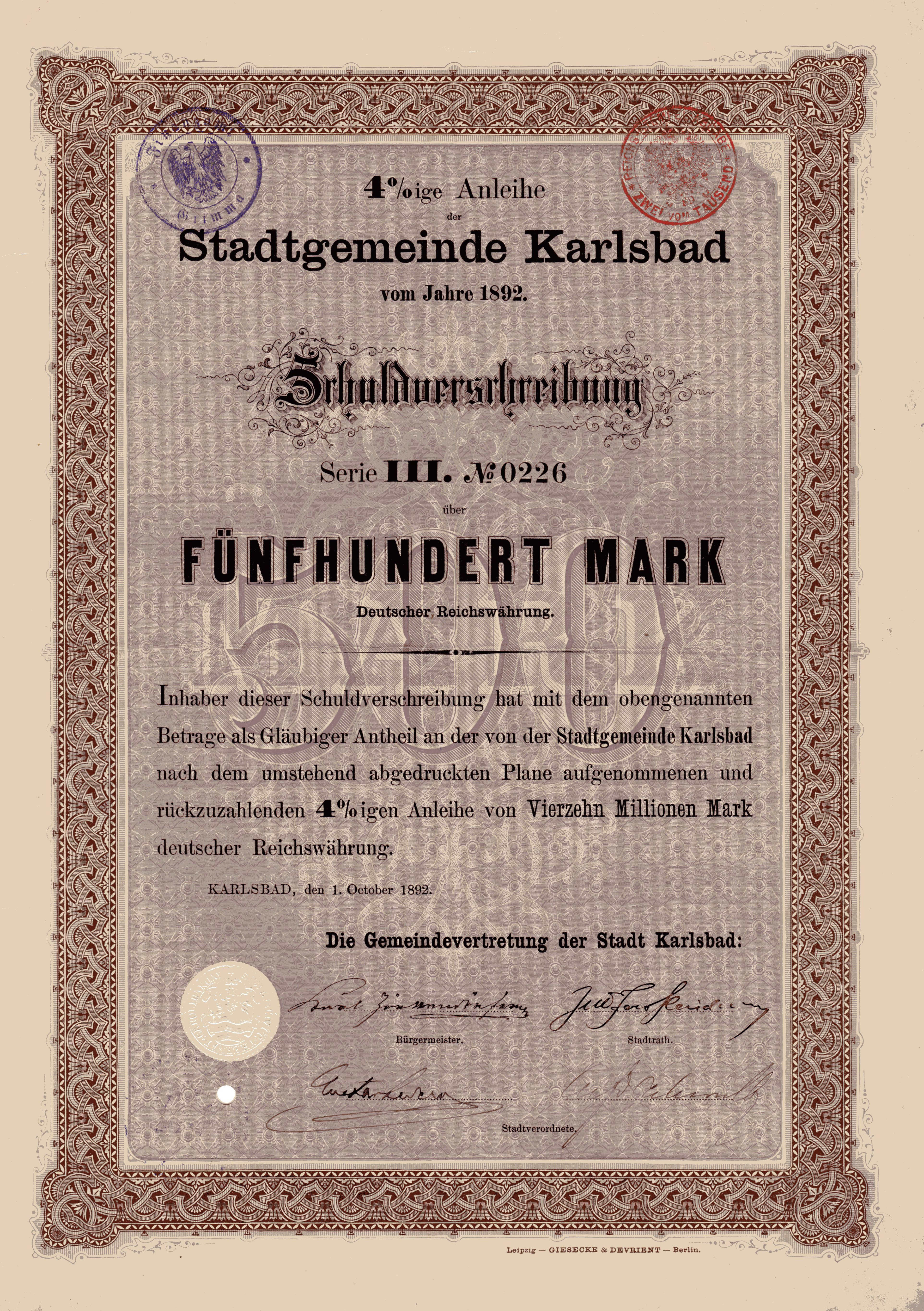 Bond of the city of Karlsbad, issued 1. October 1892